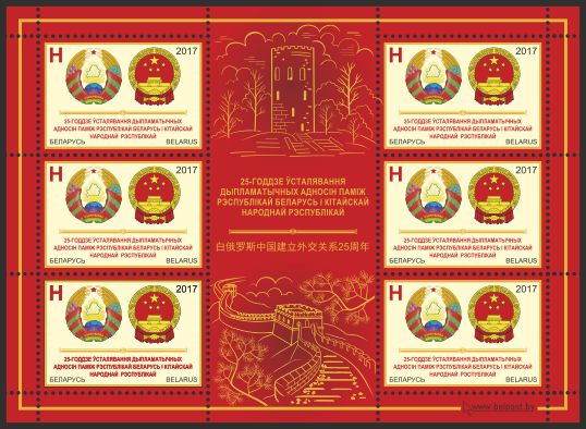 25th anniversary of diplomatic relations between the Republic of Belarus and the People Republic of China.